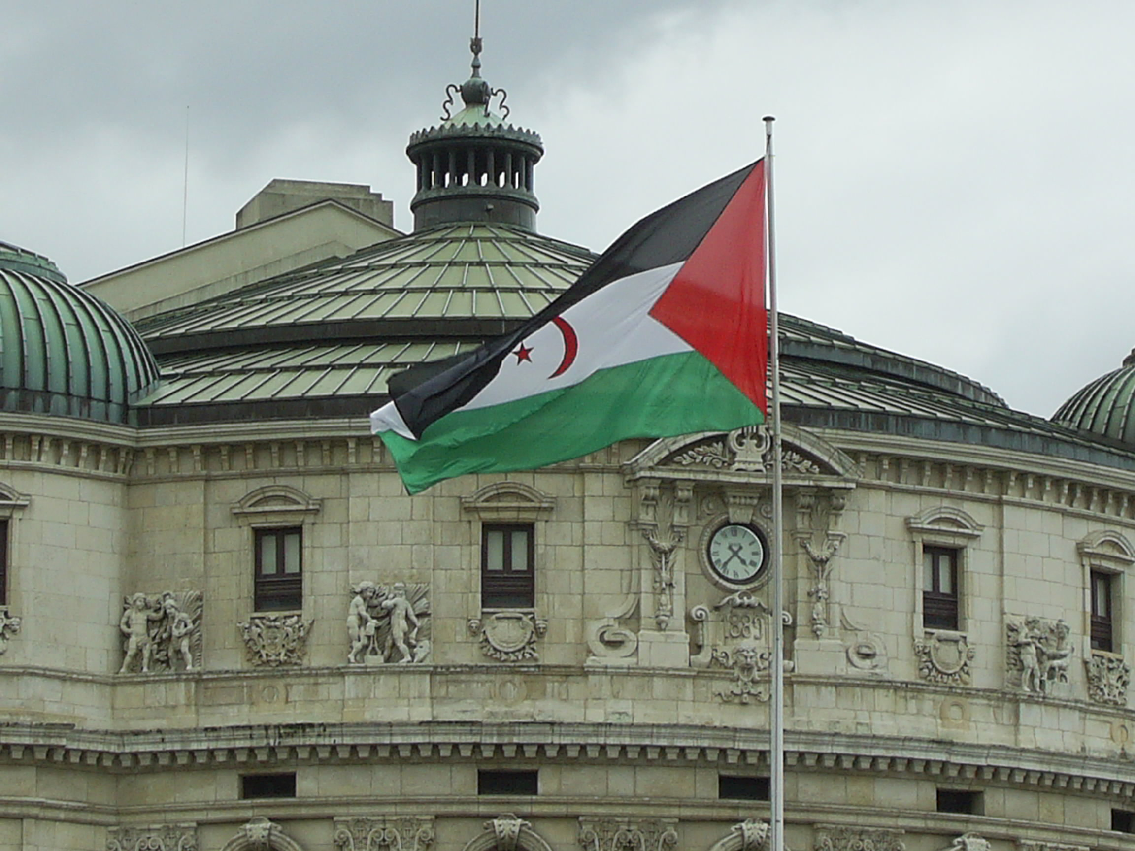 Flag of the Sahrawi Arab Democratic Republic (SADR) installed by the mayor of Bilbao (Spain) in front of the Arriaga theater, February 27, the anniversary of the creation of the SADR by the Polisario Front in 1976.